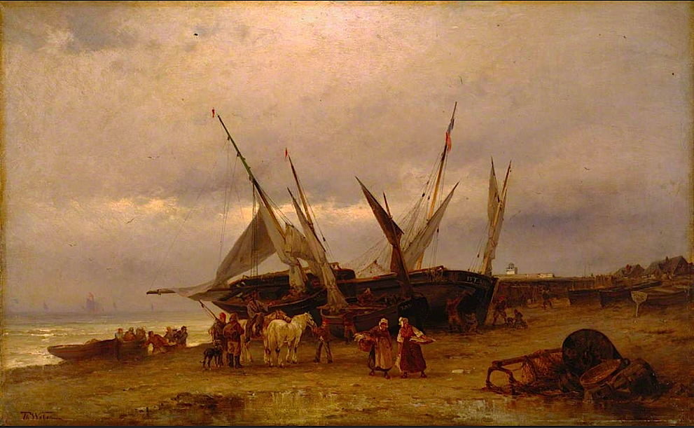 Seascape with Fishing Boats and Figures on the Shore, oil on canvas.